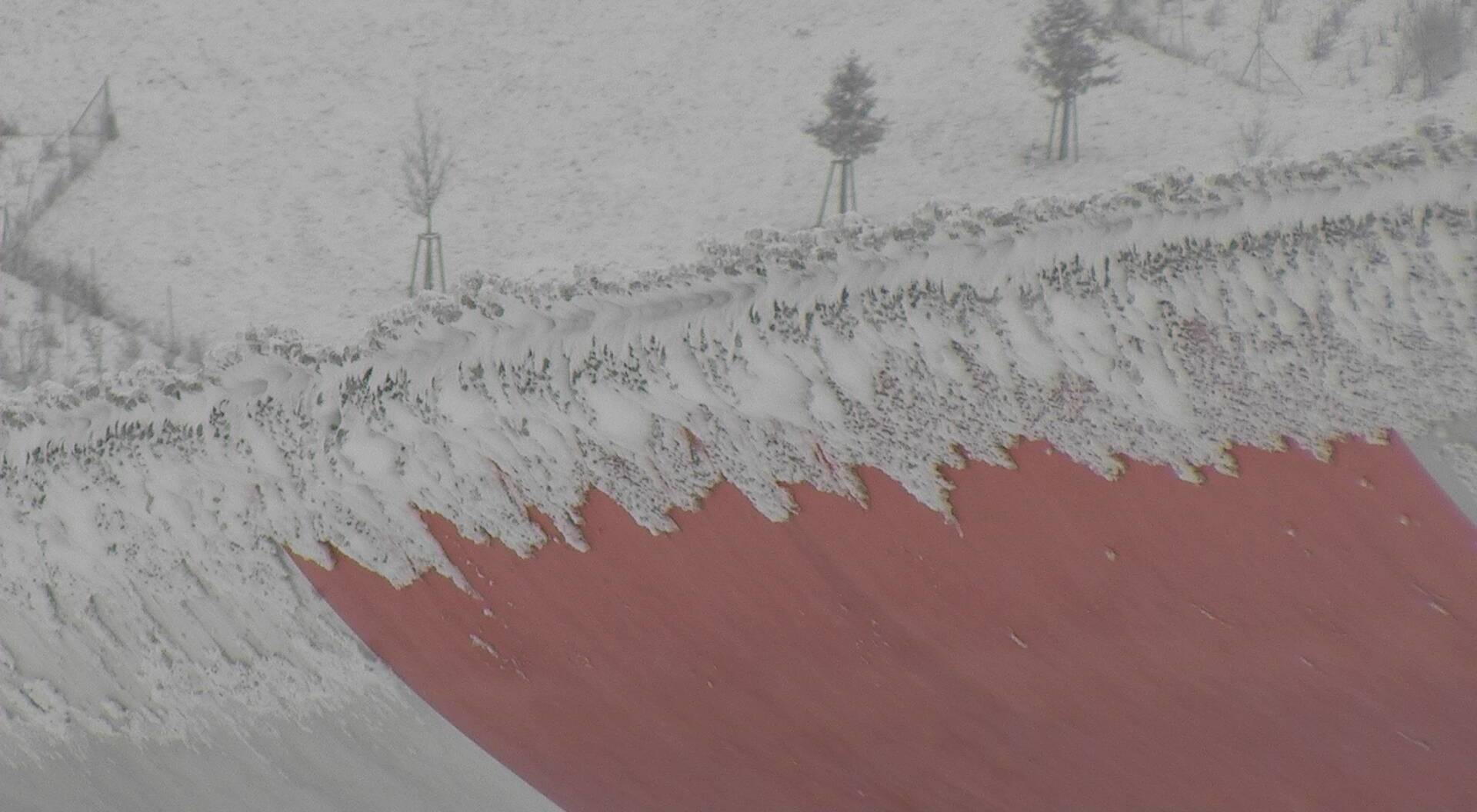 Rotor blade of wind turbine with icing in Northern Germany. Wind turbine is located close to an Highway. Therefore an ice detection system is installed, which stopped the wind turbine because ice had been detected. Icing is located at leading edge.